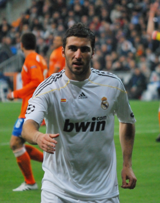 Higuain in a UEFA Champions League match against Zurich (11-25-2009)